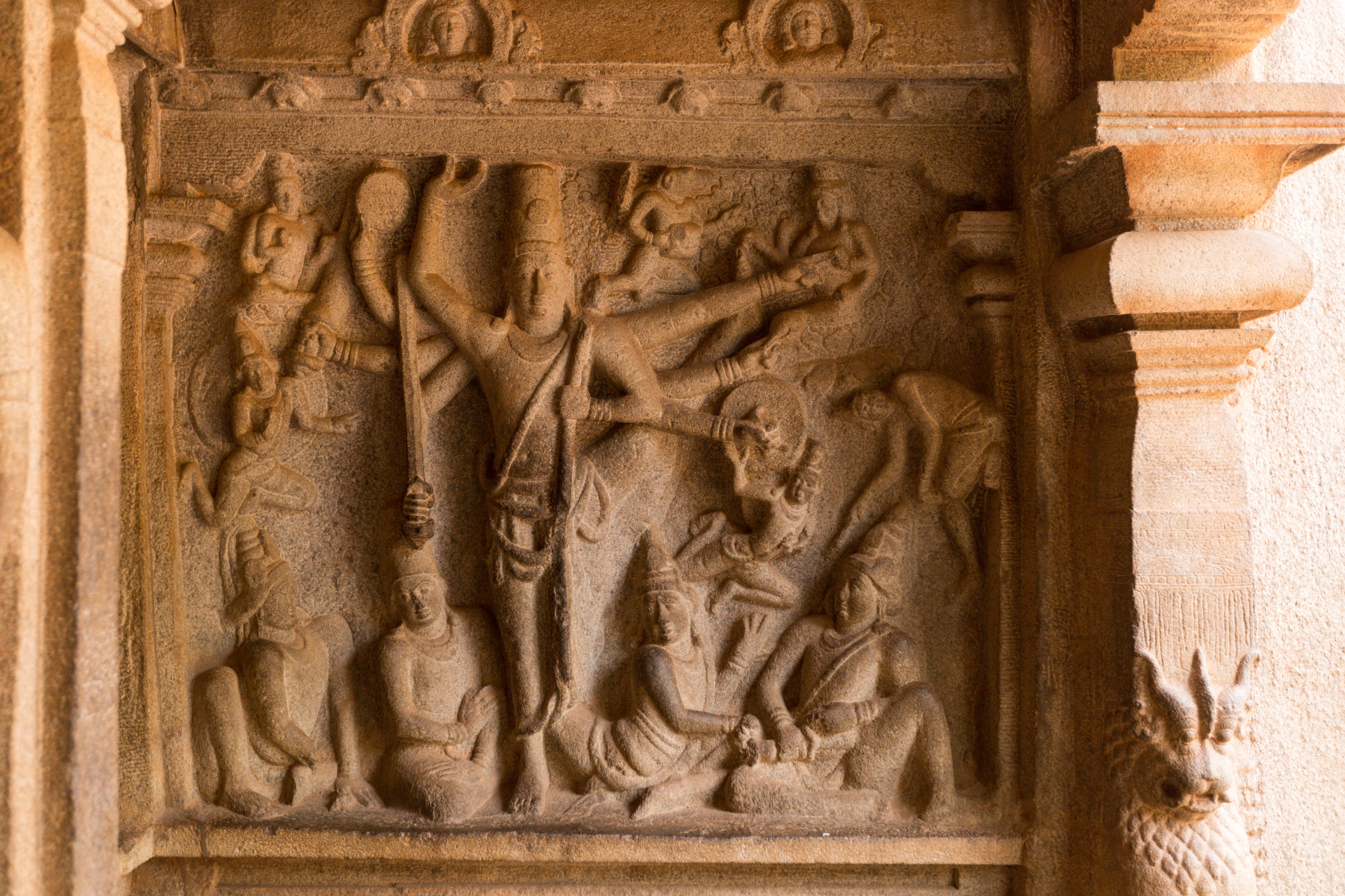 This project exploring MAMALLAI was undertaken as it holds a significant place in the history of Tamilazagam. Mamallai temples and sculptures can be considered as a prototype laboratory for the temple architecture of Dravidian style. Even much before the Mahendravarman (590-630 AD) of Pallava dynasty, temple worship was much in practice, however, he was one who initially introduced the STONE TEMPLE building to Tamilazagam. Before his time, perishable materials was used for temple construction like bricks, clay, limestone and wood. Tamilians during Sangam and post sangam period used Stones to commemorate the valor of hero’s , who had sacrificed their life for their land . These “Hero Stones” ( “Veera Kallu” in Tamil)being built in the memory of the DEAD valorous ones, probably was the reason why stones were not used for the construction of temples. In fact cave temples and structural temples were in vogue with other contemporary rulers of north, namely Chalukyas and Rashtrakutas and the much earlier rulers of Gupta and Maurayas dating back to 2 to 3rd century BCE. There is no unanimity among experts on the authorship and chronology of Mamallai Monuments. However in general the experts feel that these Monuments came in to existence over a period of almost a century, starting from Mahendra Pallava (630-668 AD), his son Narasimha pallava and then followed by Parameswara and Rajasimha (700-728AD) Mamallai achieves a unique position in India in temple architecture studies as it has the following temple style in one place. - Cave Temples - Monolithic Temples( insitu single rock temples) - Structural Temples( where rocks are cut/sized and laid) - Open air Bas Relief. Mamallai, a treasure house of Temple architecture , in a way was an inspiration to great Cholas, who had immortalized the temple construction by their creative energy.